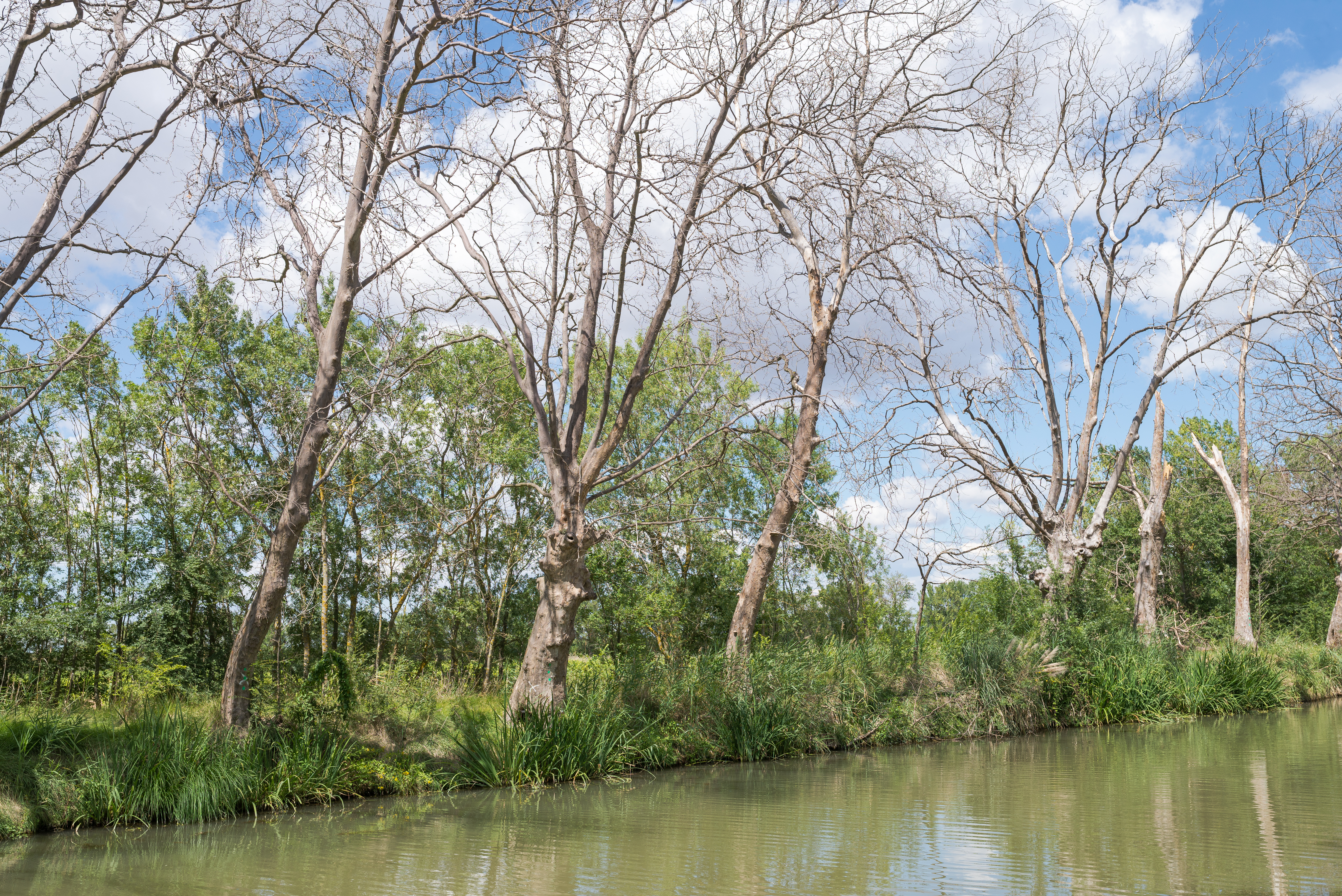 London plane trees (Platanus × hispanica) affected by Ceratocystis platani on a bank of the Canal du Midi. Agde, Hérault, France.